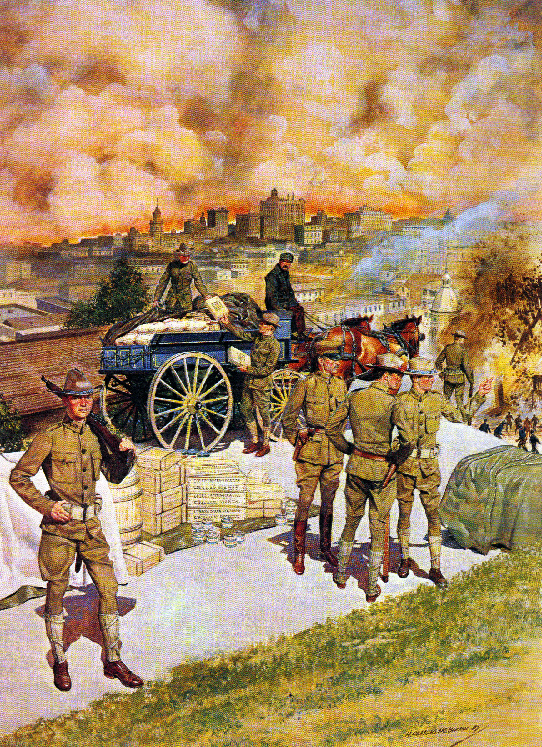 Thank God For The Soldiers As fires rage through San Francisco soldiers, dressed in olive drab service dress with strapped leggings and wearing campaign hats with light blue cords designating infantry, unload one of many civilian wagons pressed into service with their drivers. (In addition to supplies from Army depots, food, including much flour, came from cities all over the United States.) The officer with the black visored service cap is a lieutenant colonel of infantry. With his olive drab, single breasted sack coat, with four chokedbellow pockets, low falling collar and dull finish bronze metal buttons he wears olive drab service breeches and russet leather boots. The officer and the artillery sergeant known by his scarlet hat cord carry .38 caliber service revolvers; the rifles shown are the new .30 caliber 1901 "Springfields."